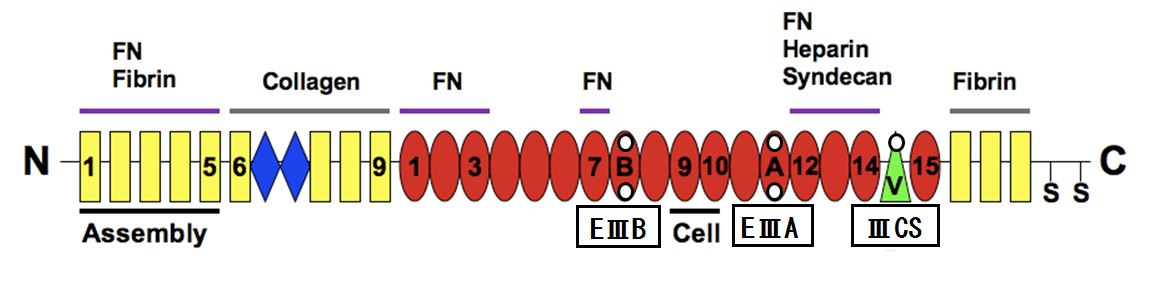 FN module selective splicing structure